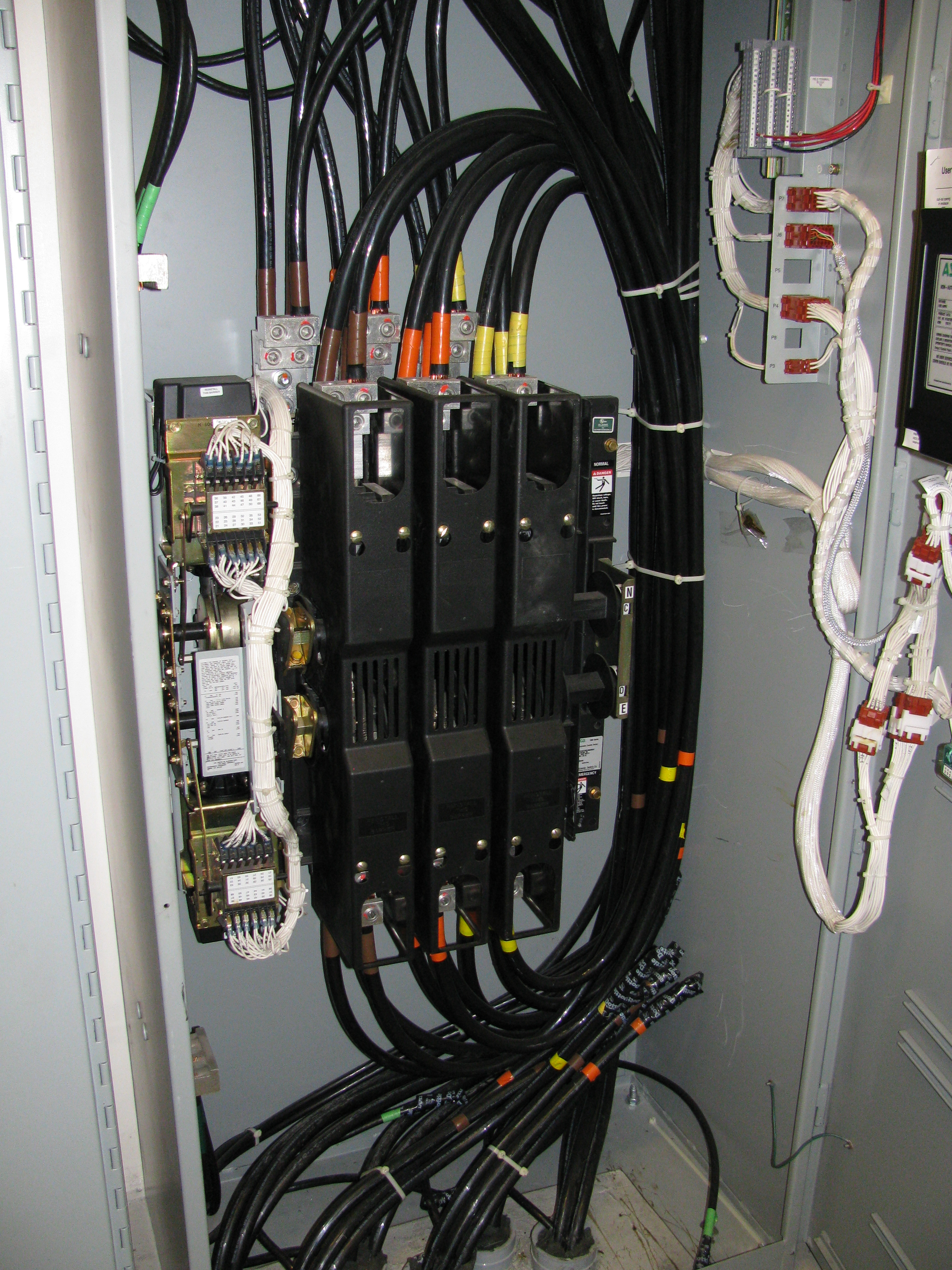 Data Center Power Room